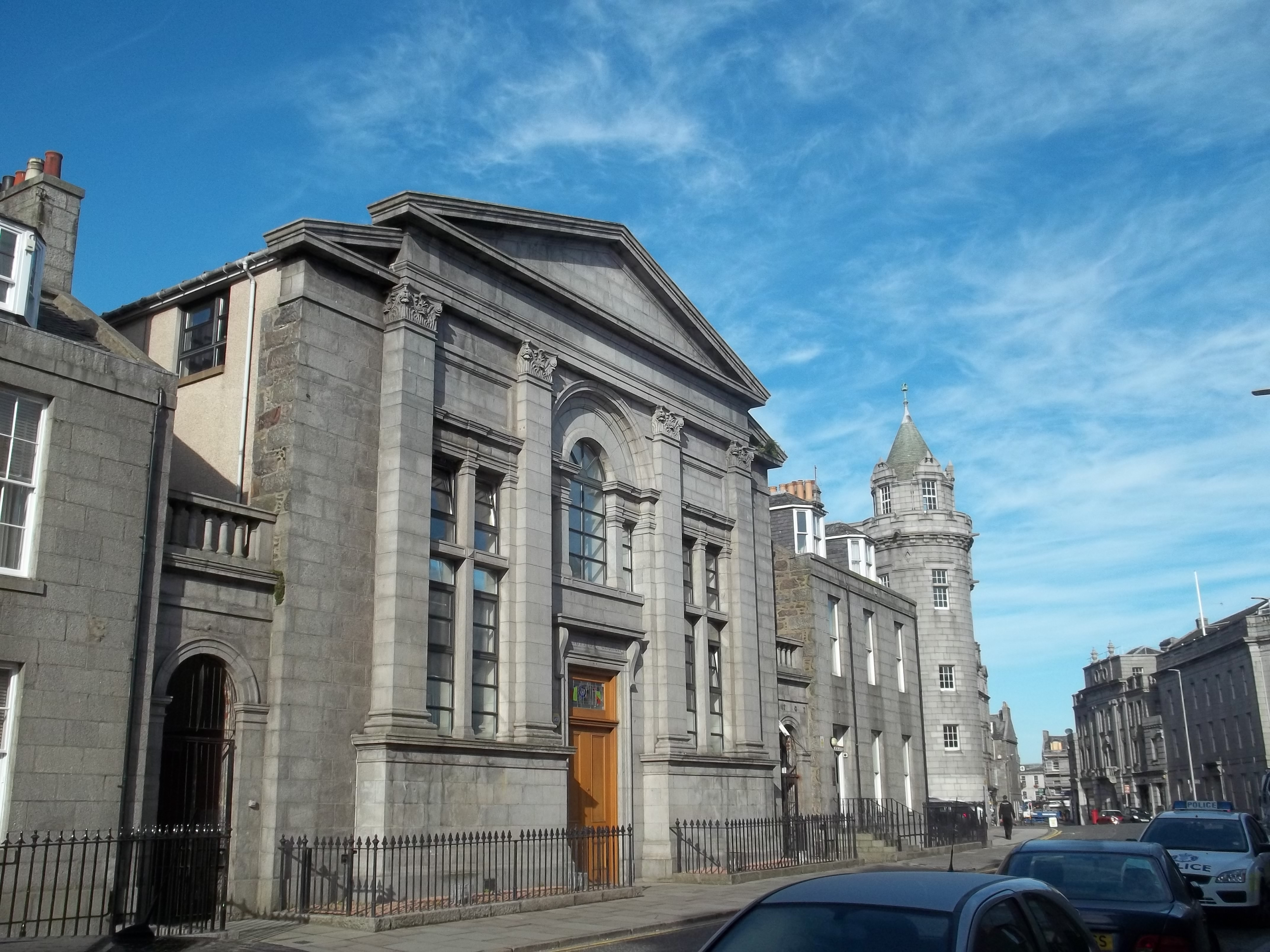 Former Trinity United Free Church, Crown Street, Aberdeen